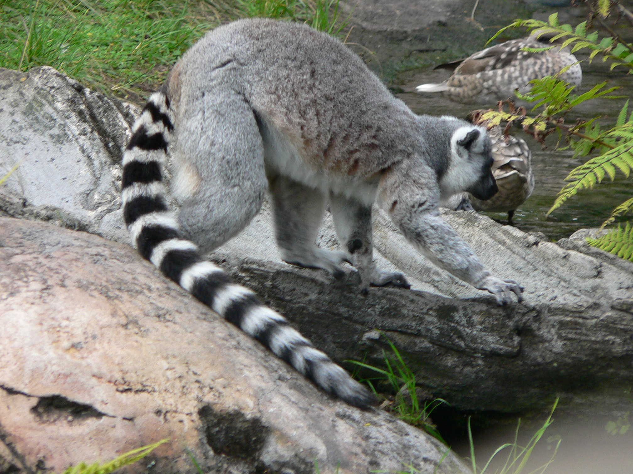 Taken at Disney's Animal Kingdom.